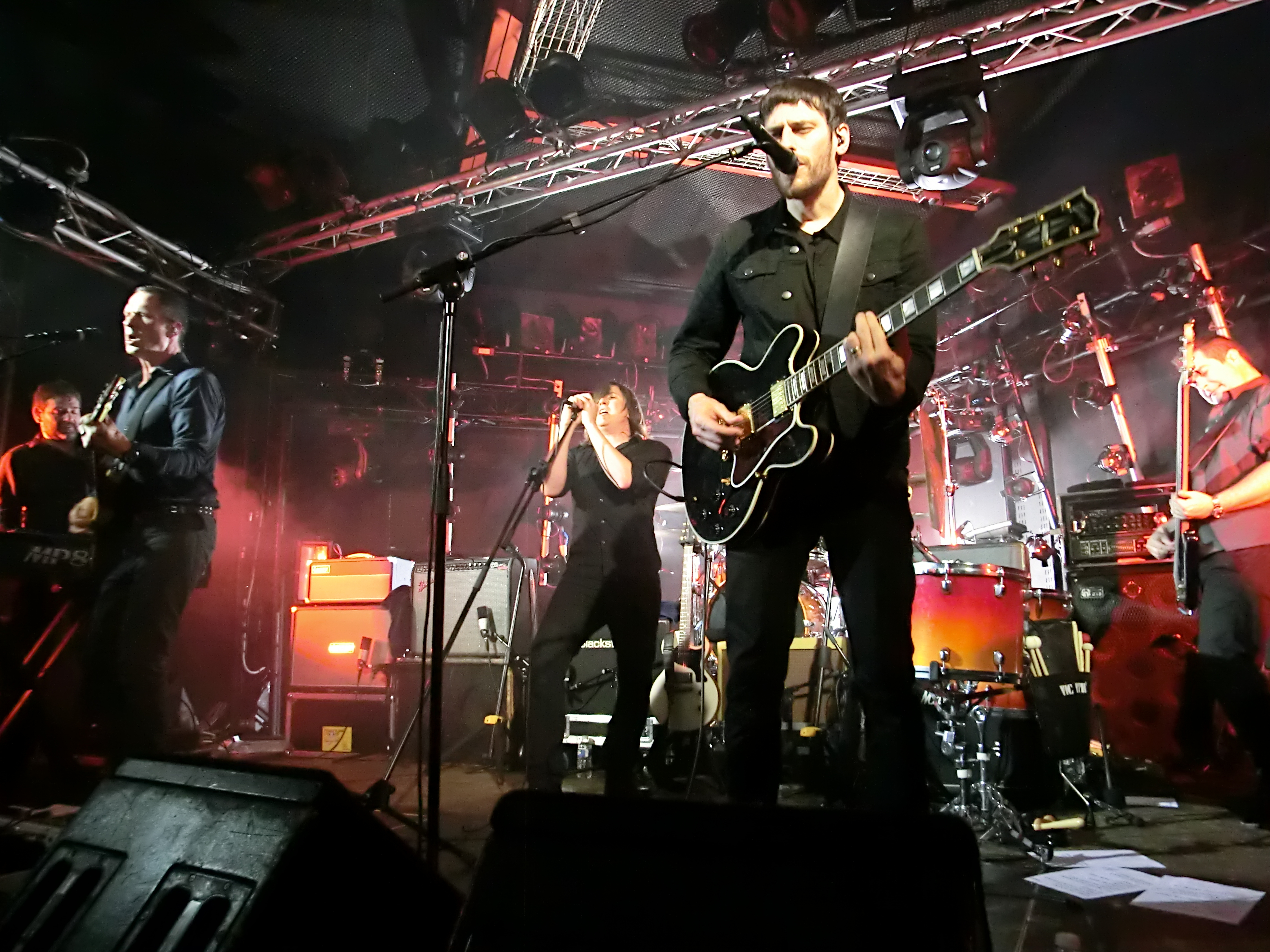 Archive in concert